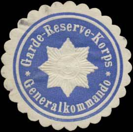 Sealing stamp Title: Generalkommando Garde-Reserve-Korps Description: Place: size: 4 cm